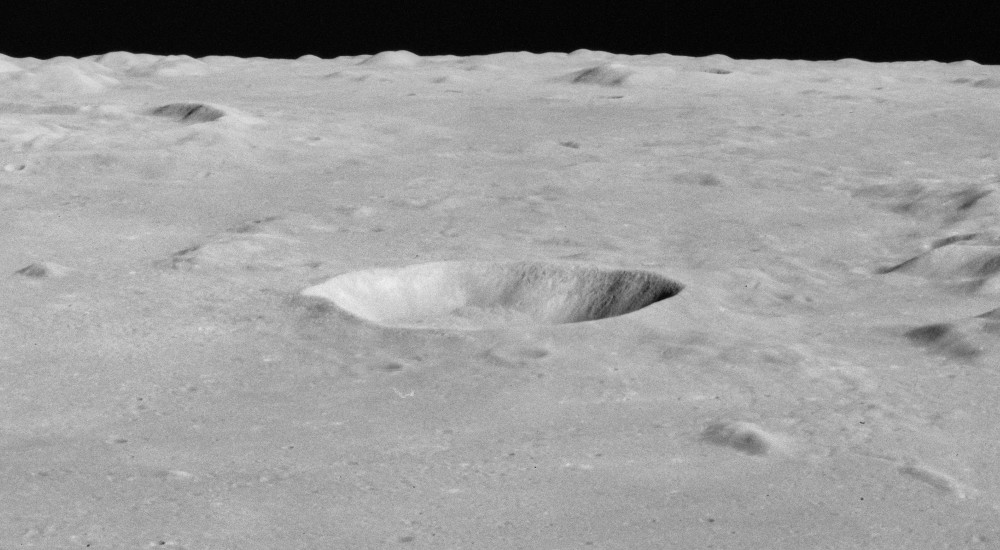 Highly oblique view facing north of Theaetetus crater, northeastern Mare Imbrium, on the moon.